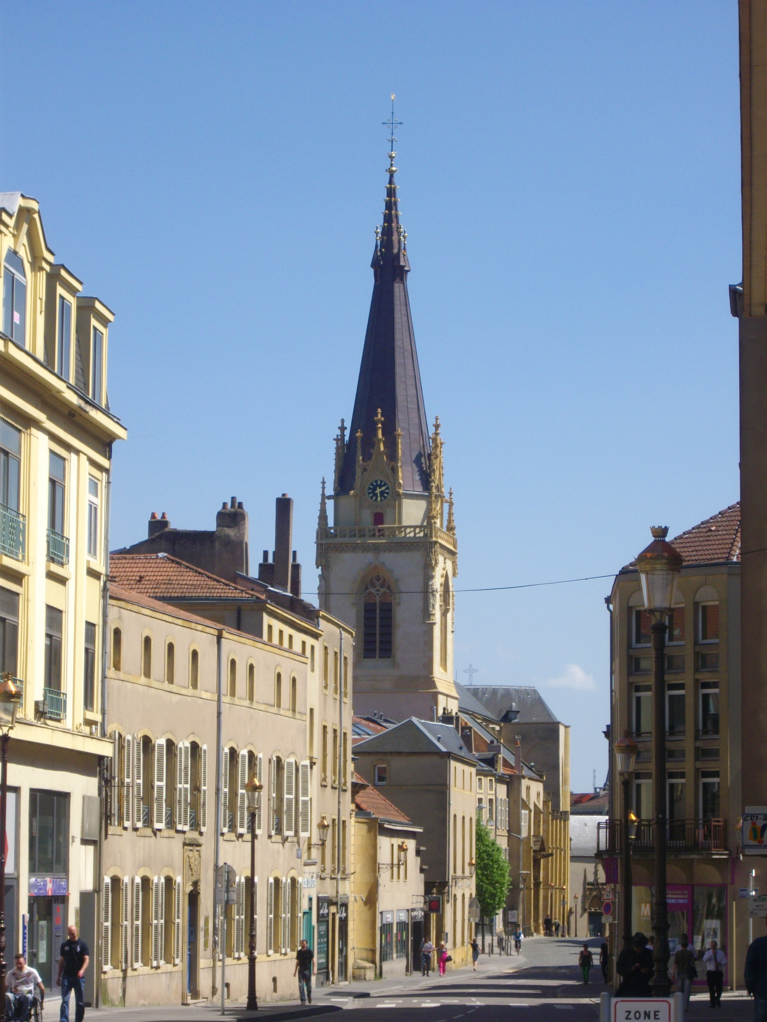 Tower of Saint Martin church of Metz (Moselle, France), seen from Republic square .